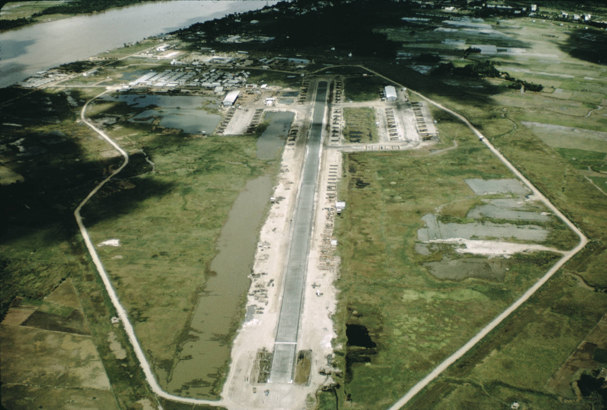 Vinh Long airfield recently rehabilitated by D Company, 27th Engineer Battalion. This strip is 3500' long and has a M8A1 solid steel mat surface